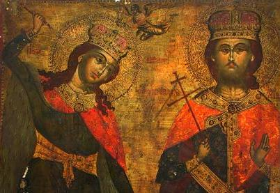 Icon of St.. Marina and St.. John Vladimir, part of the iconostasis of the Church "Holy Archangels' Monastery in St.. Naum near Ohrid, Macedonia